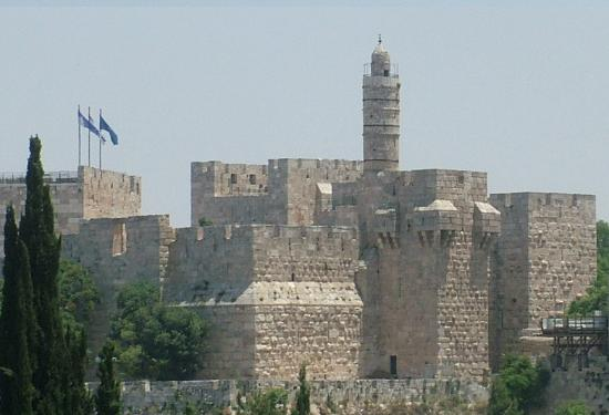 David Tower